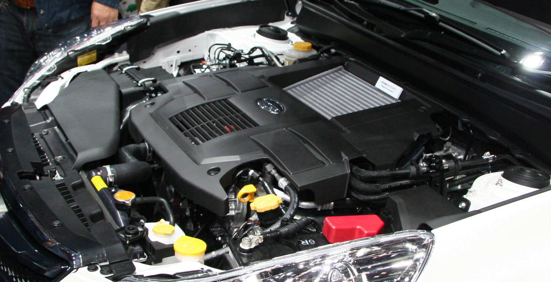 Subaru Legacy B4